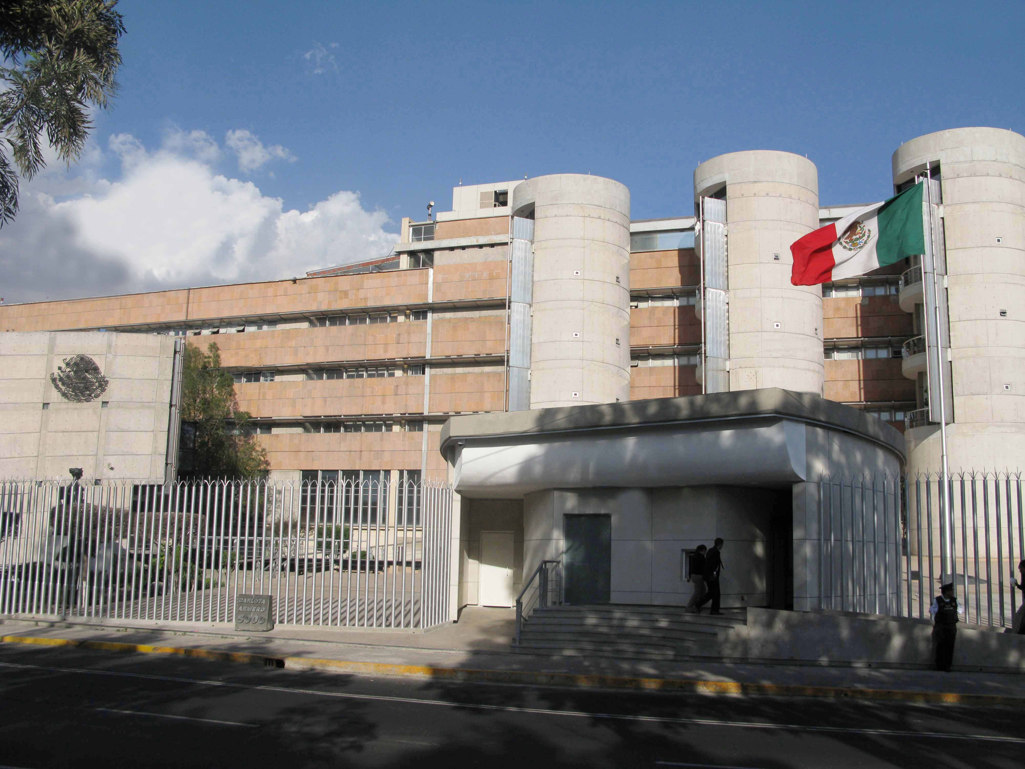 Seat of the Electoral Court of the Federal Judicial Branch